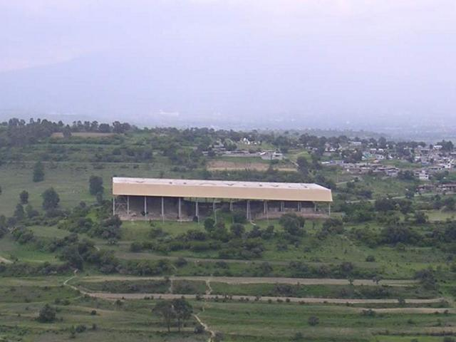 View across to the Gran Basamento, protected by its sheet-metal roof, which is the center of the Cacaxtla archeological site in Tlaxcala, Mexico.